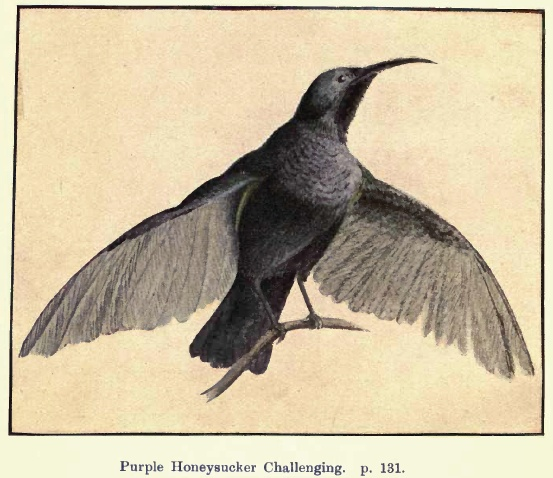 Display of Purple Sunbird